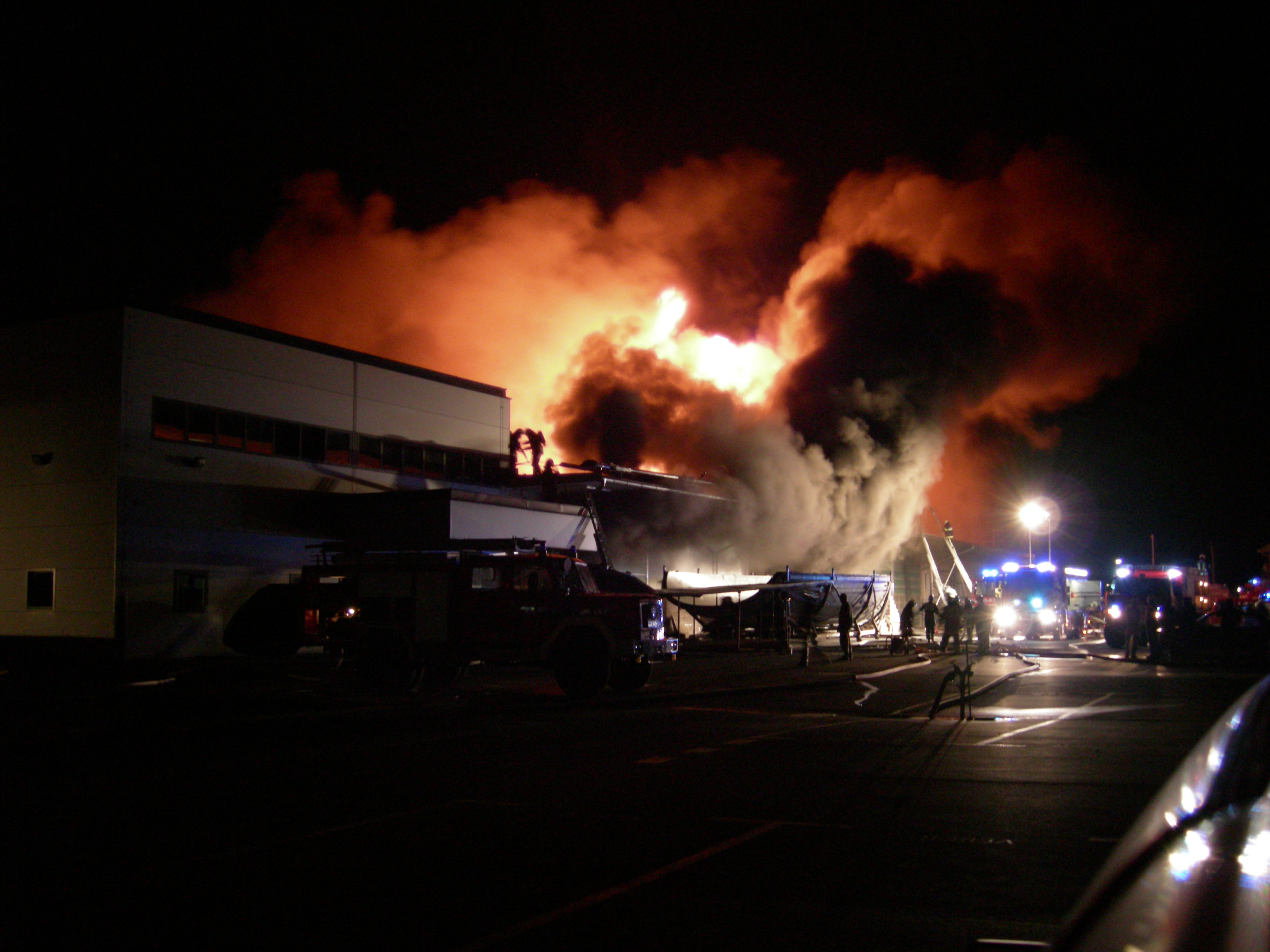 Fire in SeaWay company (design and construction of Shipman sailing yachts) in Zapuže, Slovenia on April 11, 2007